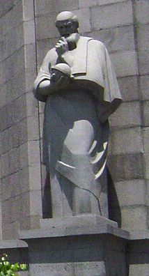 A statue of Anania Shirakatsi in front of the Matenadaran in Yerevan, Armenia.